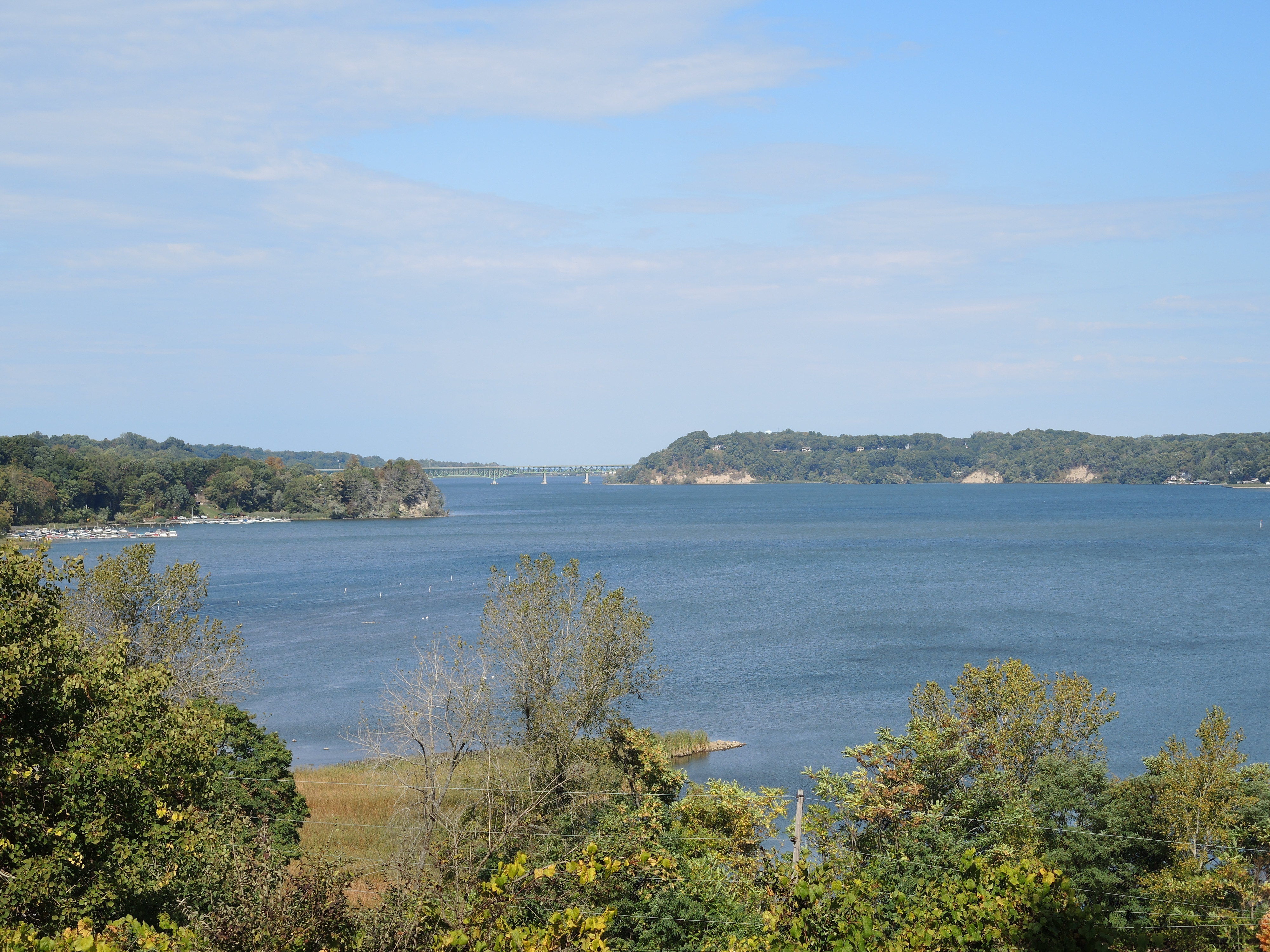 Irondequoit Bay viewed from Lucien Morin Park